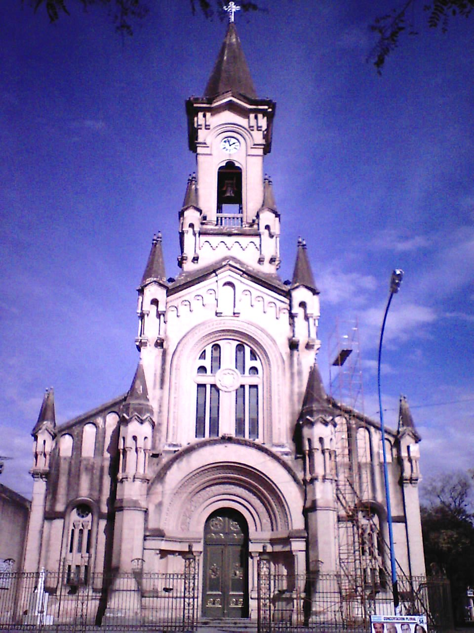 Cathedral of Rafaela, province of Santa Fe, Argentina. Consecrated to Saint Raphael the Archangel.